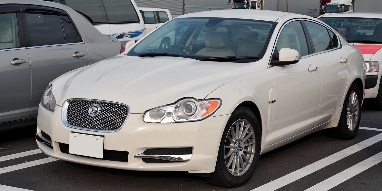 Jaguar XF ( for Japanese market )